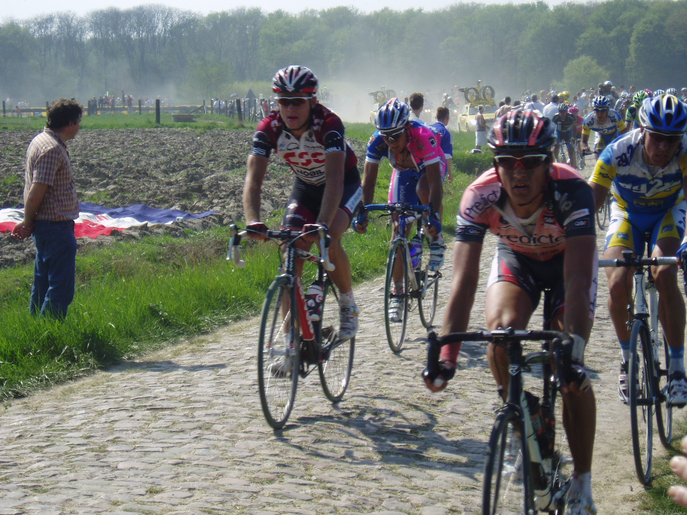 Bunch during Paris-Roubaix 2007